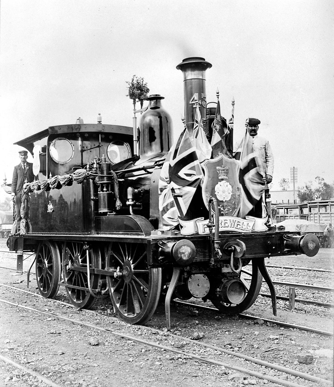 1901 - M Class Locomotive No. 43 decorated for the Royal train - Duke of York Visit